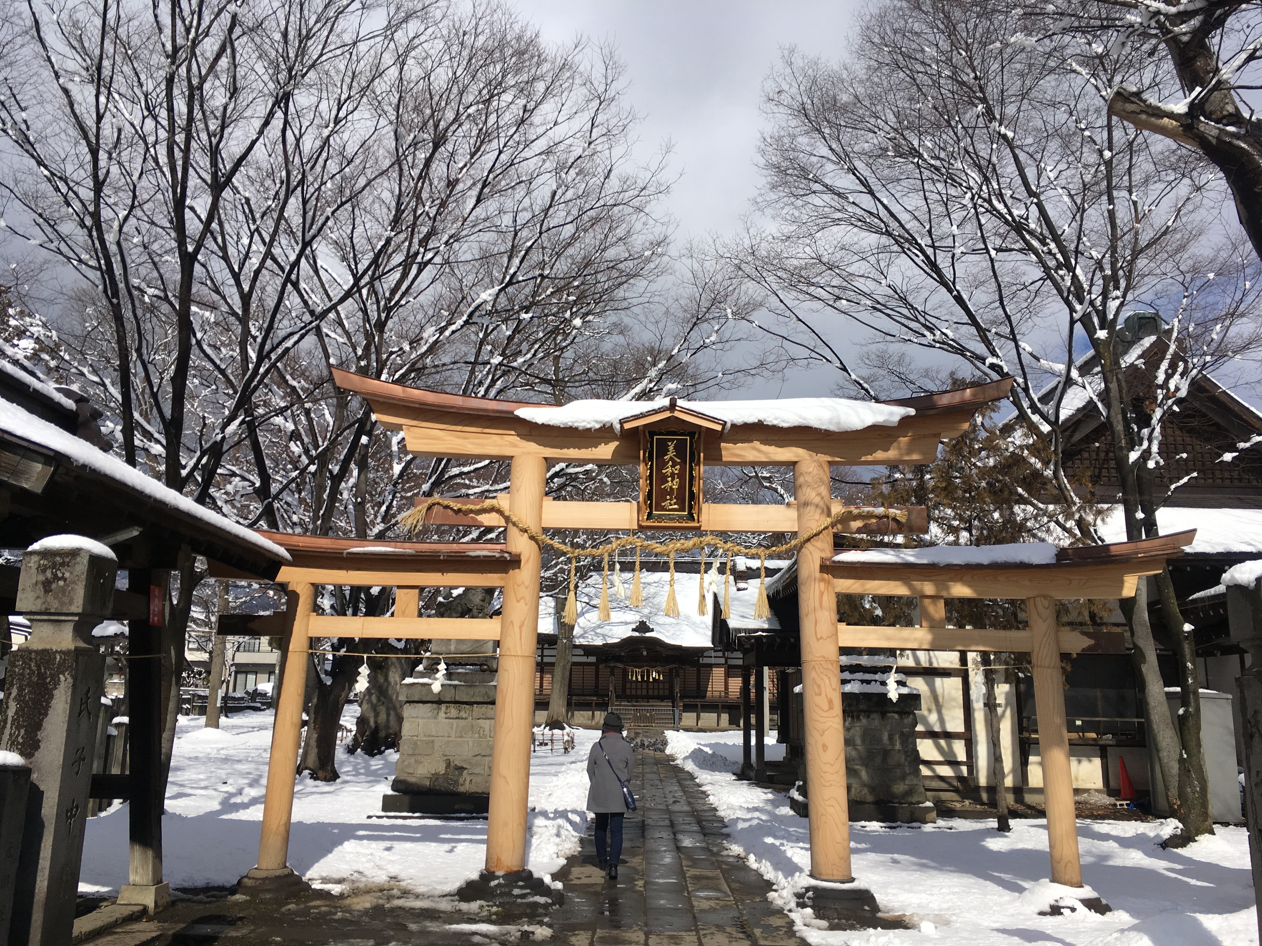 This is the front gate (south entrance) of Miwa Jinja, Nagano City.